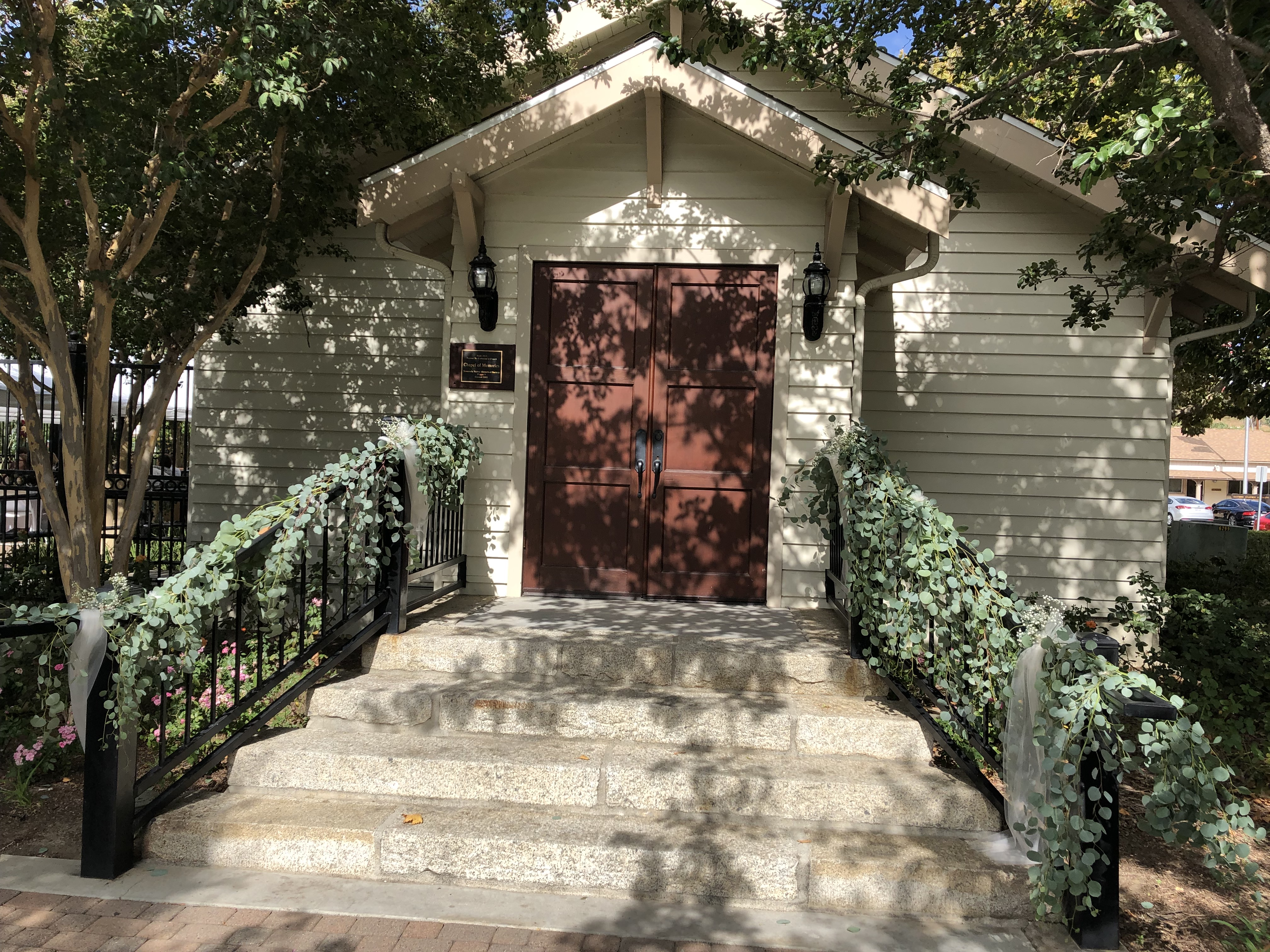 Front entrance, Chapel of Memories.